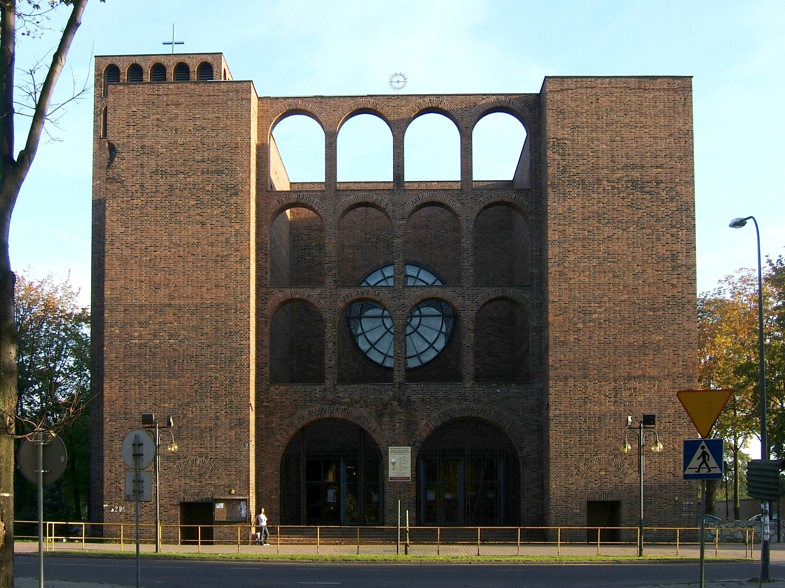 Saint Joseph's Church in Zabrze from 1929; projected by Dominikus Böhm.